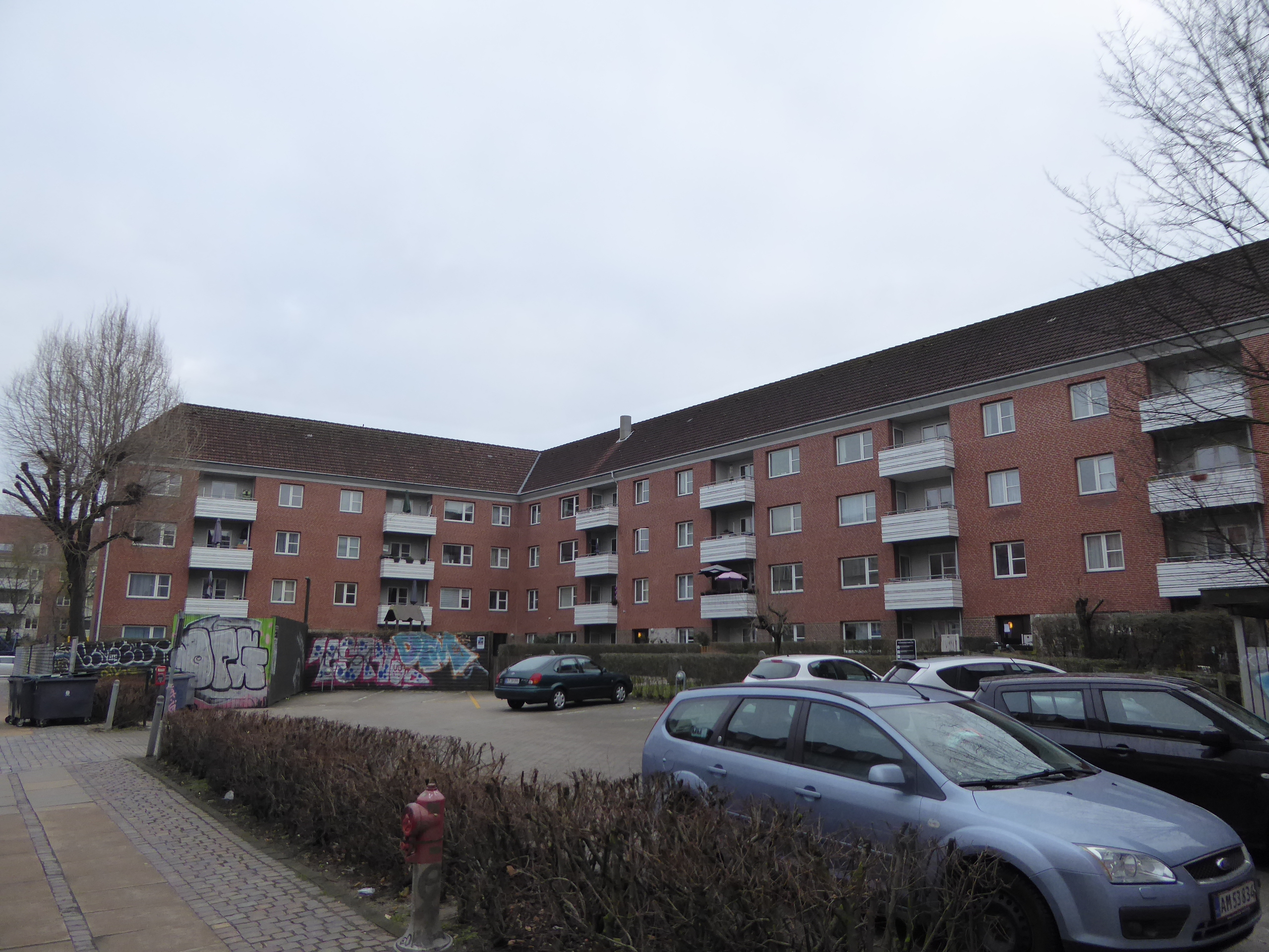 Apartment building at Frederik VII's Gade in Nørrebro in Copenhagen.